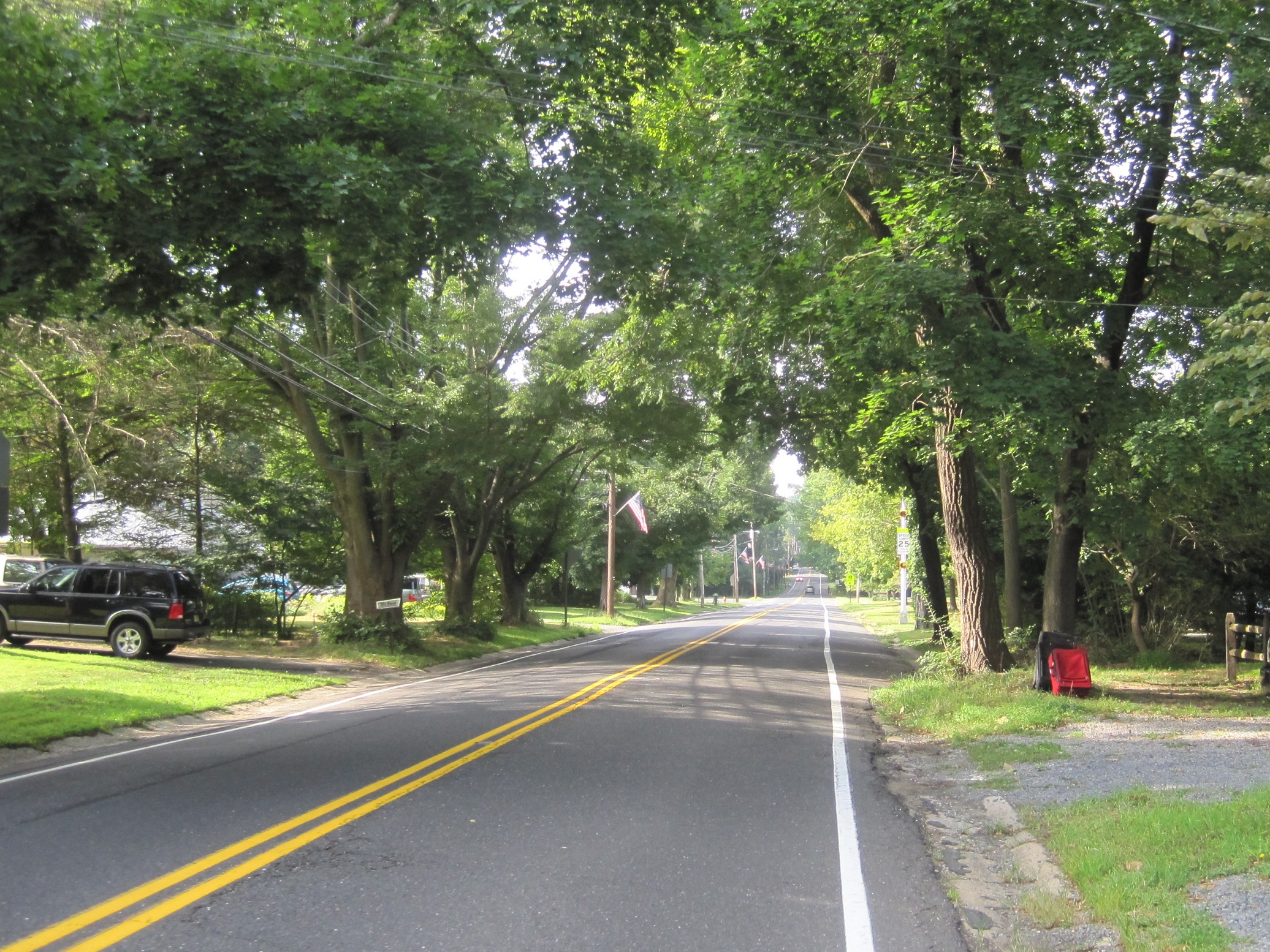 Photo showing Roosevelt, New Jersey looking south along Rochdale Avenue (County Route 571). Photo taken between Pine Drive and Farm Lane